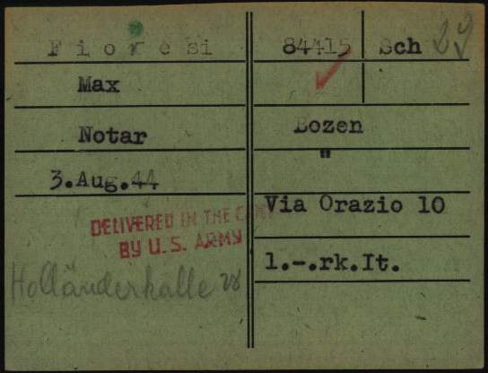 Registry card of Max von Fioresi-Weinfeld as a prisoner at Dachau Nazi Concentration Camp Red stamp means he was liberated from Dachau by the U. S. Army